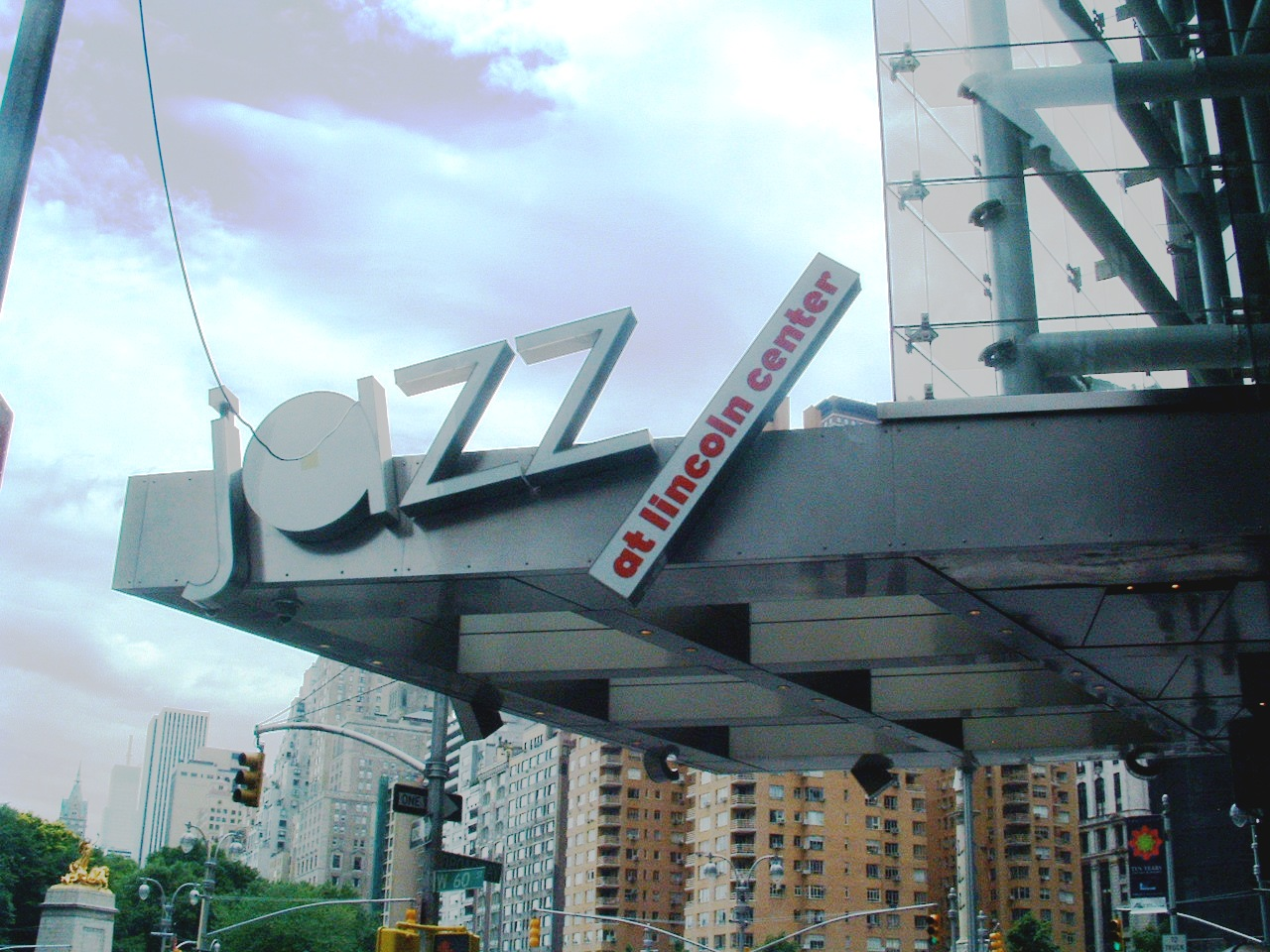 Looking southeast at the sign outside Jazz at Lincoln Center, New York City, NY.